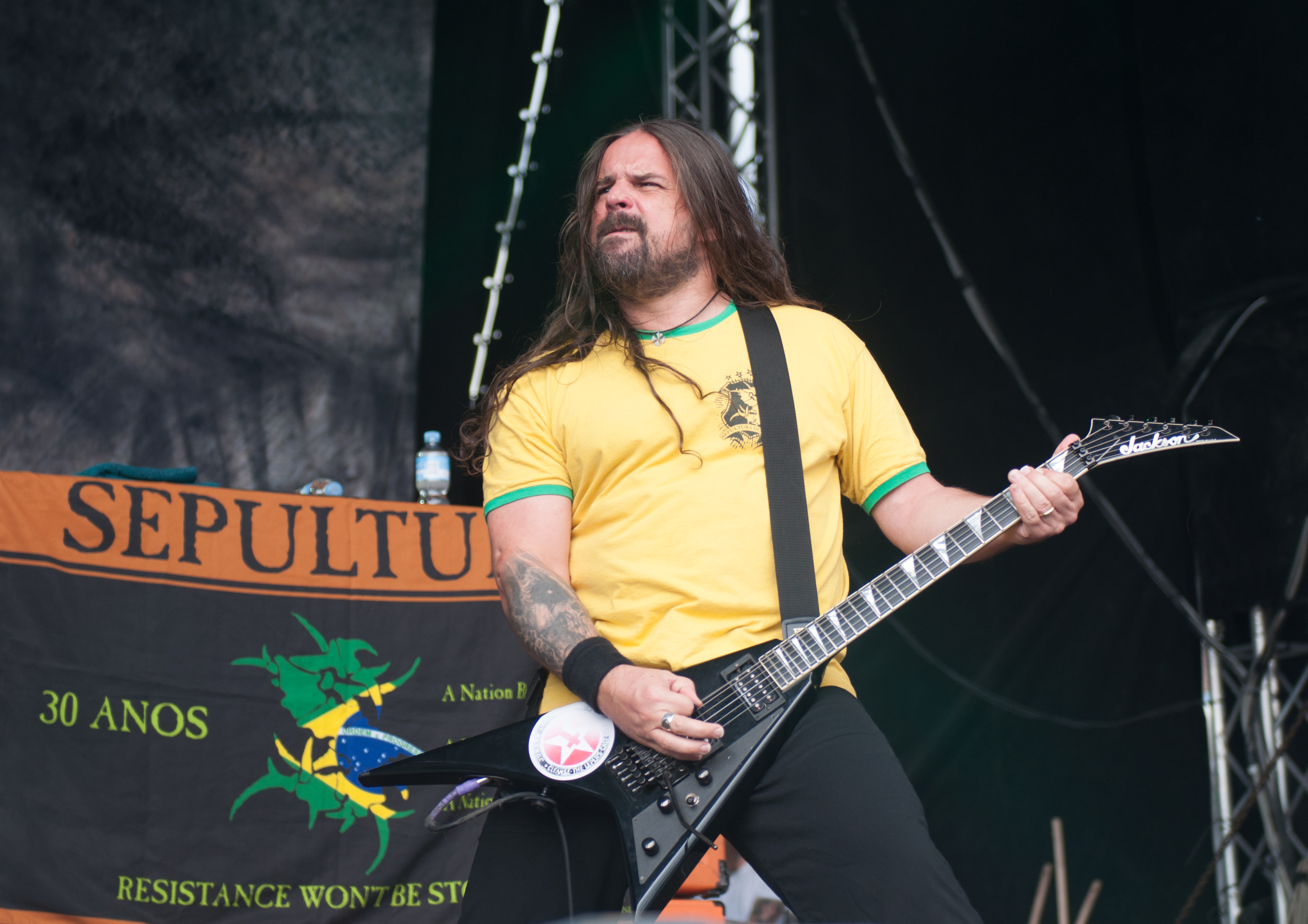 Sepultura at Vainstream Rockfest 2014